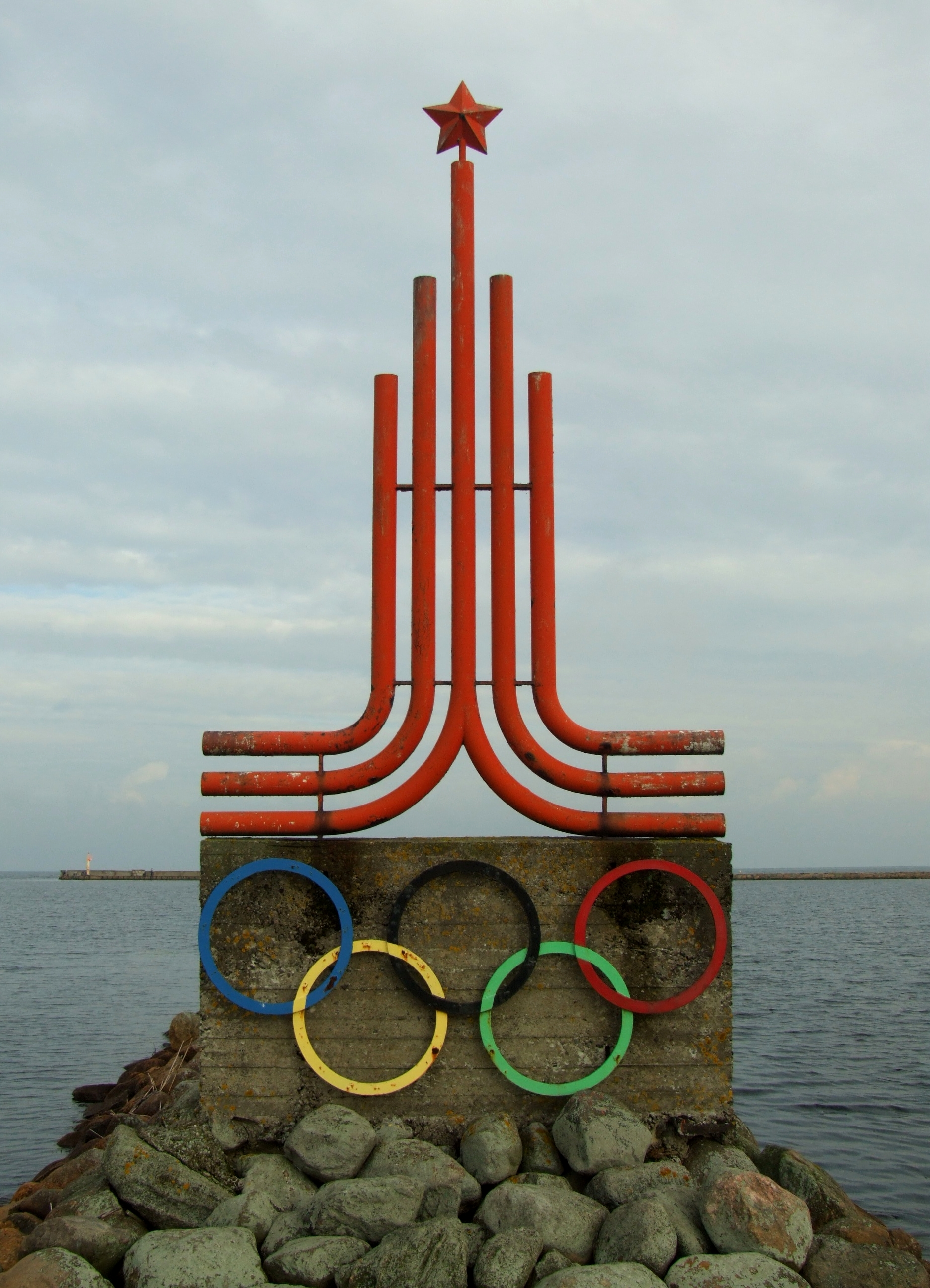 Emblem of XXII Summer Olympic Games in Tallinn